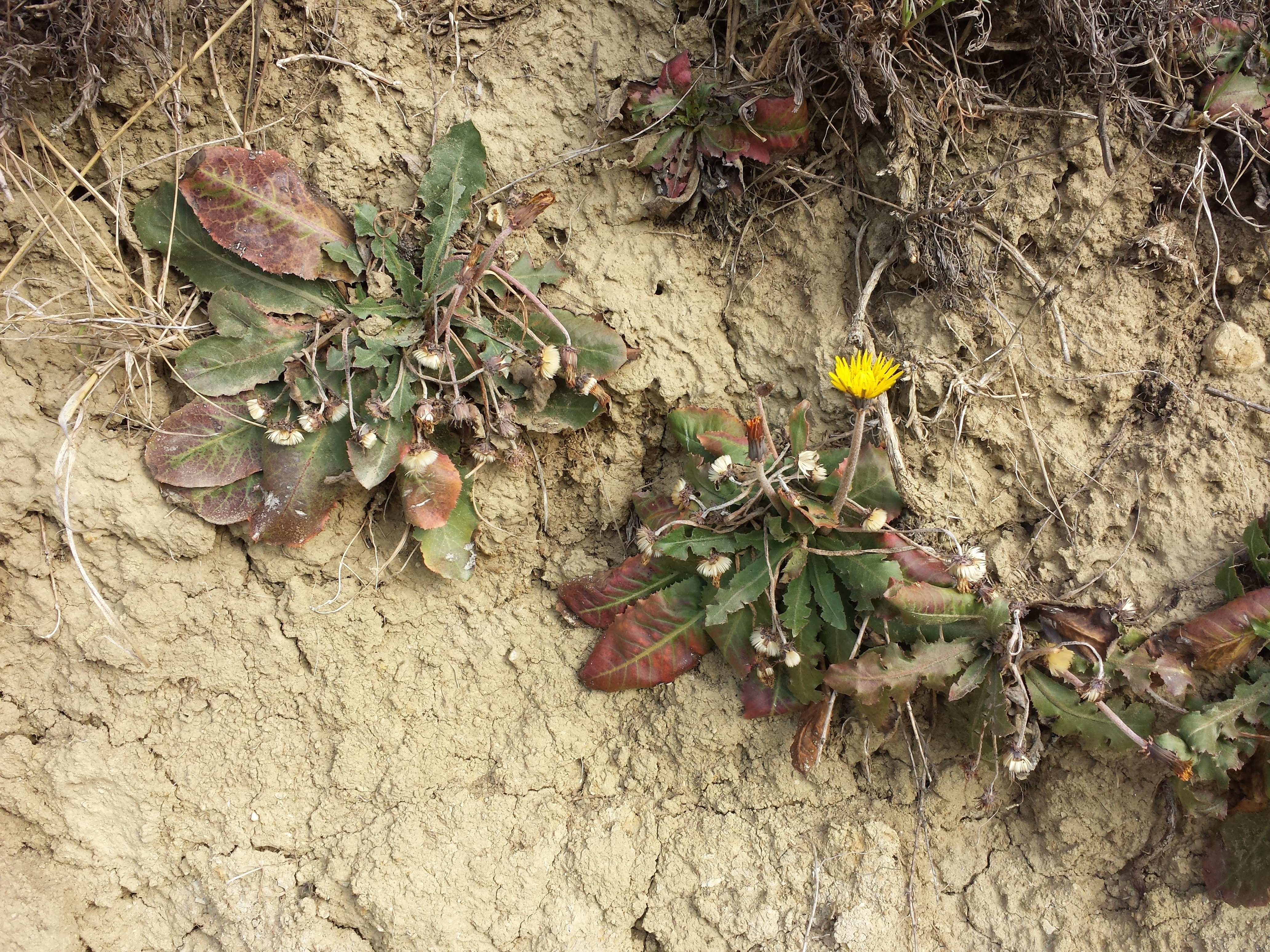 Habitus Taxonym: Taraxacum serotinum ss Fischer et al. EfÖLS 2008 ISBN 978-3-85474-187-9 Location: Loess hill to the west of Großebersdorf, district Mistelbach, Lower Austria - ca. 200 m a.s.l. Habitat: Loess wall